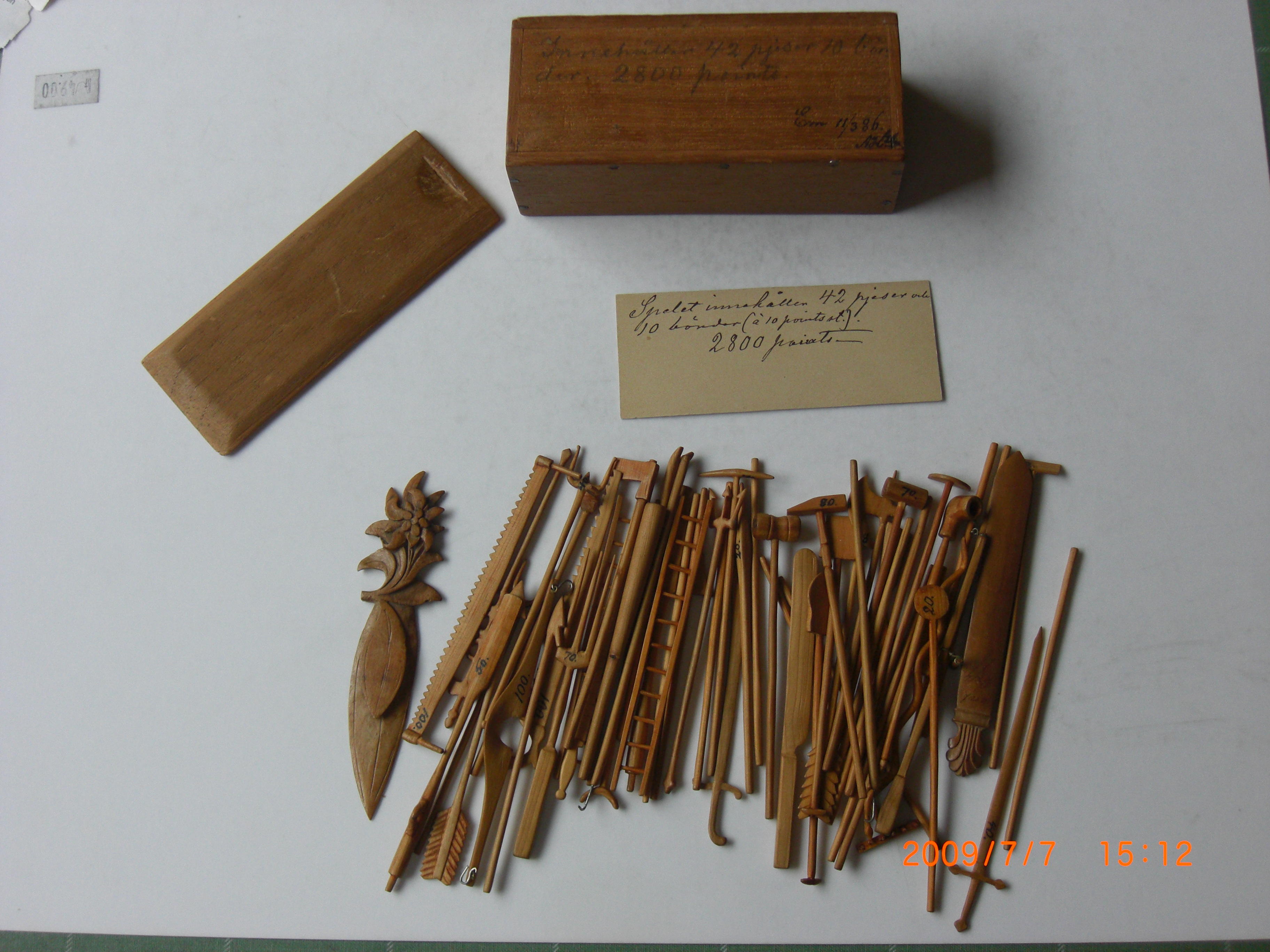 Handmade contents of a so called "skrapnosspel", a kind of party game